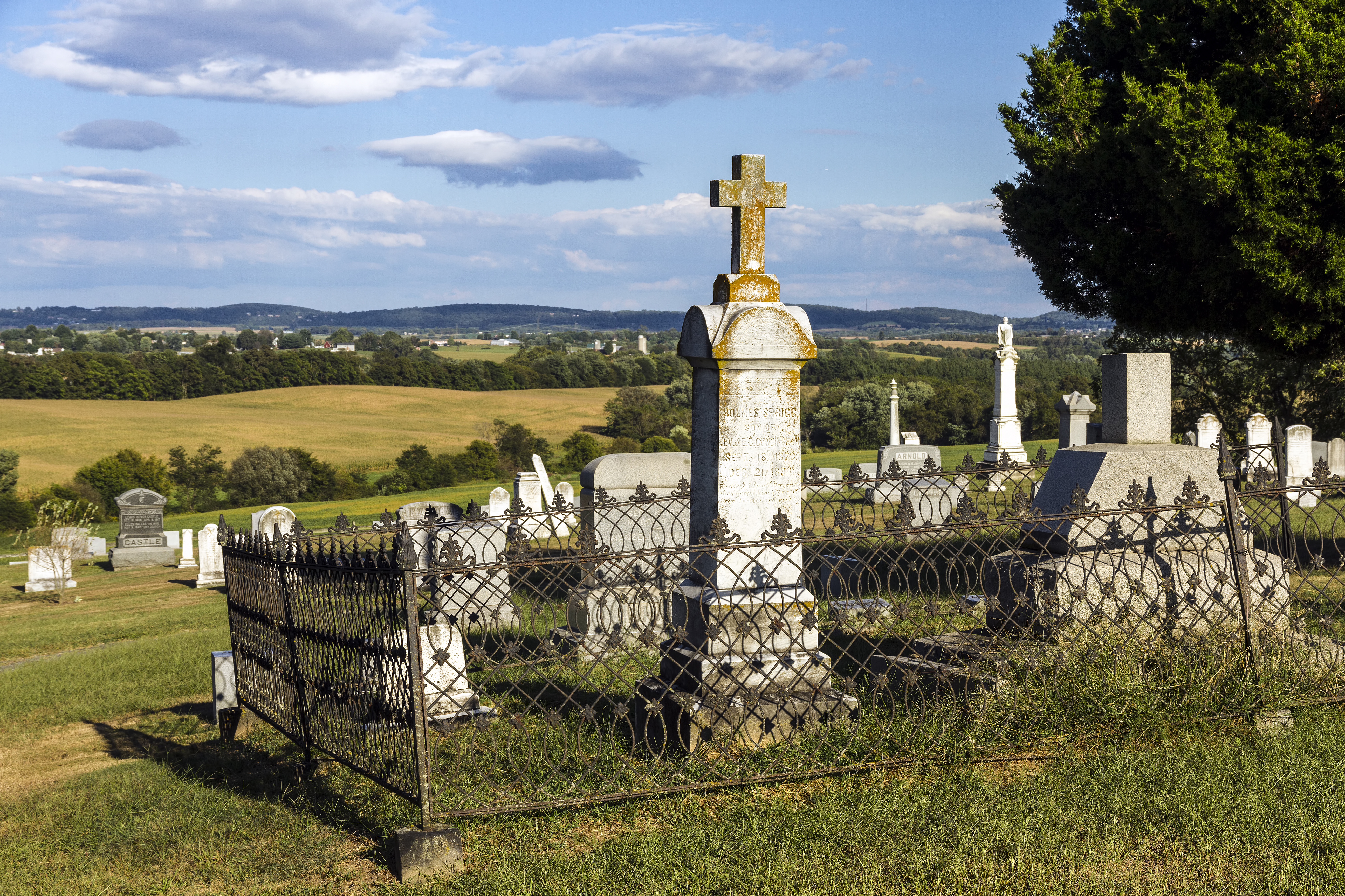 Burkittsville Historic District, the cemetery in Burkittsville, Maryland, featured in the movie The Blair Witch Project. The view includes a portion of the rural landscape included within the historic district.